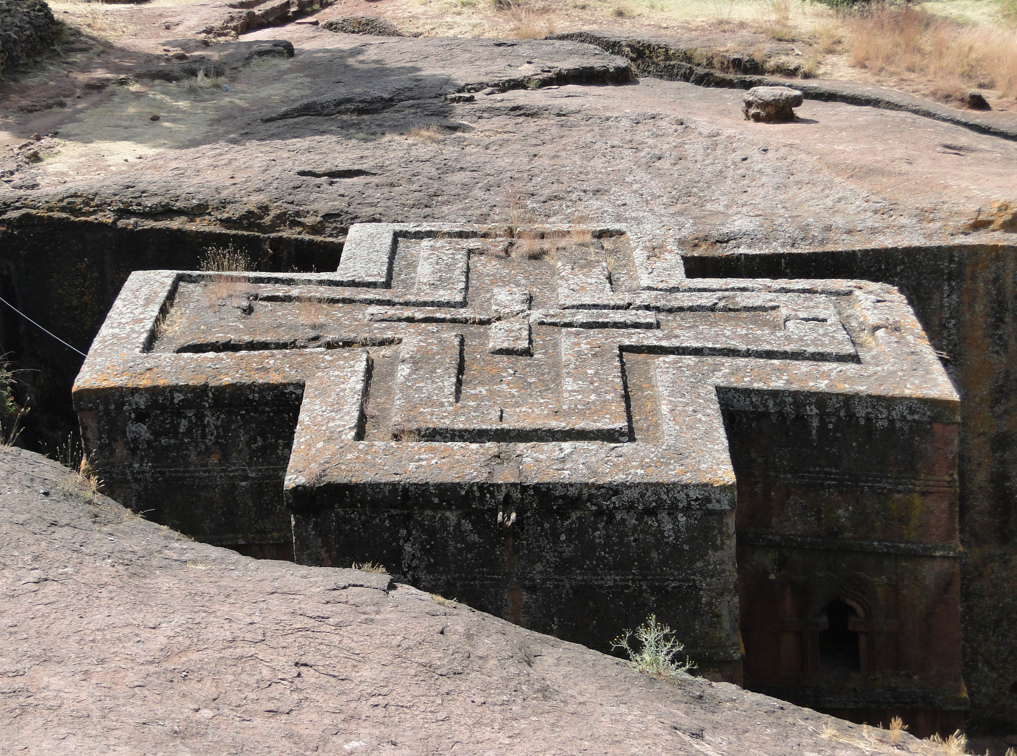 Bete Giyorgis (Church of St. George), Lalibela, Ethiopia